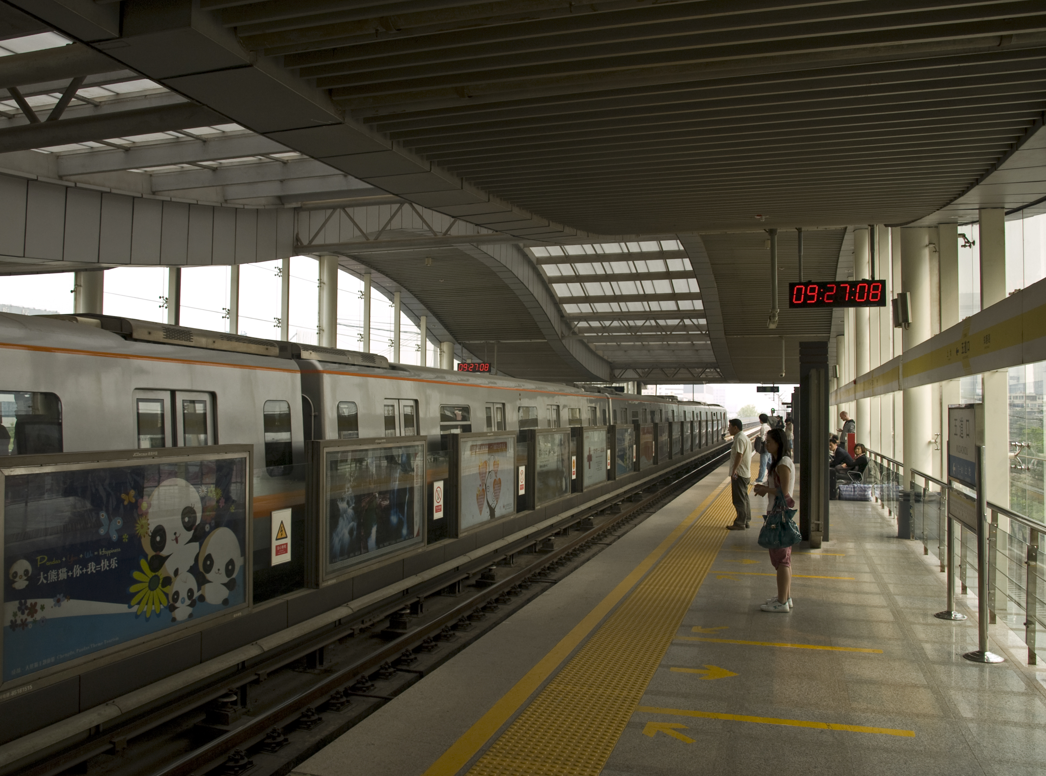 Wudaokou station, Beijing Subway